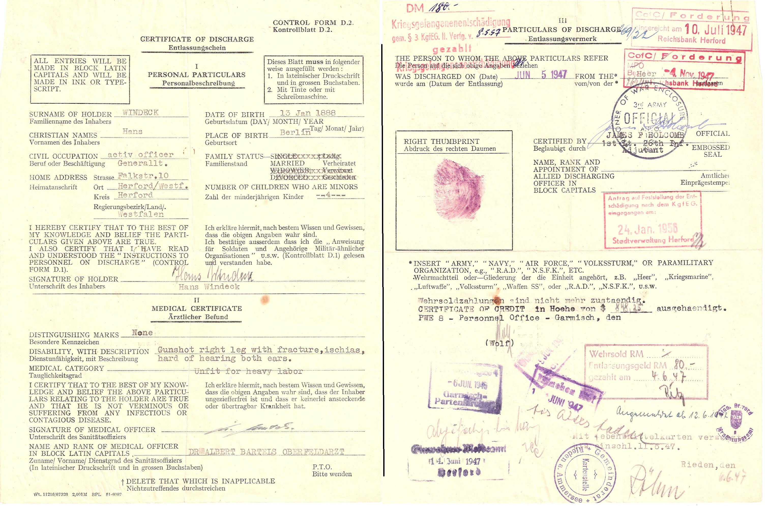 Certificate of Discharge of captivity as a prisoner of war 1947 (Front- and Backside)